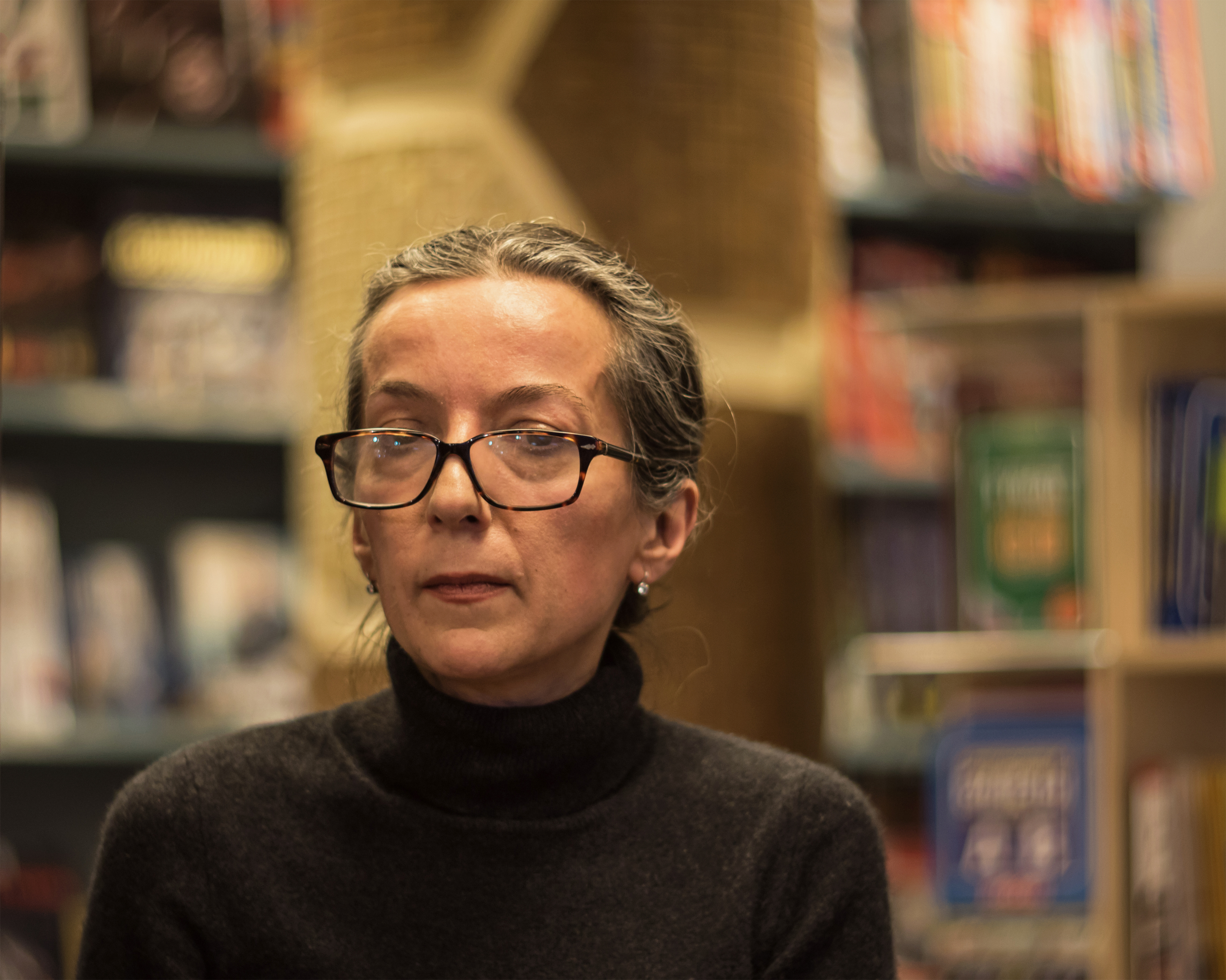 Photograph of Polina Dashkova, who is a writer from Russia.